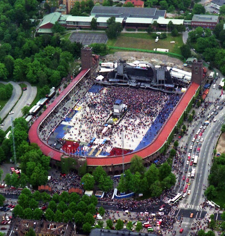 Stockholm Stadion from above, waiting for a Rolling Stones concert.